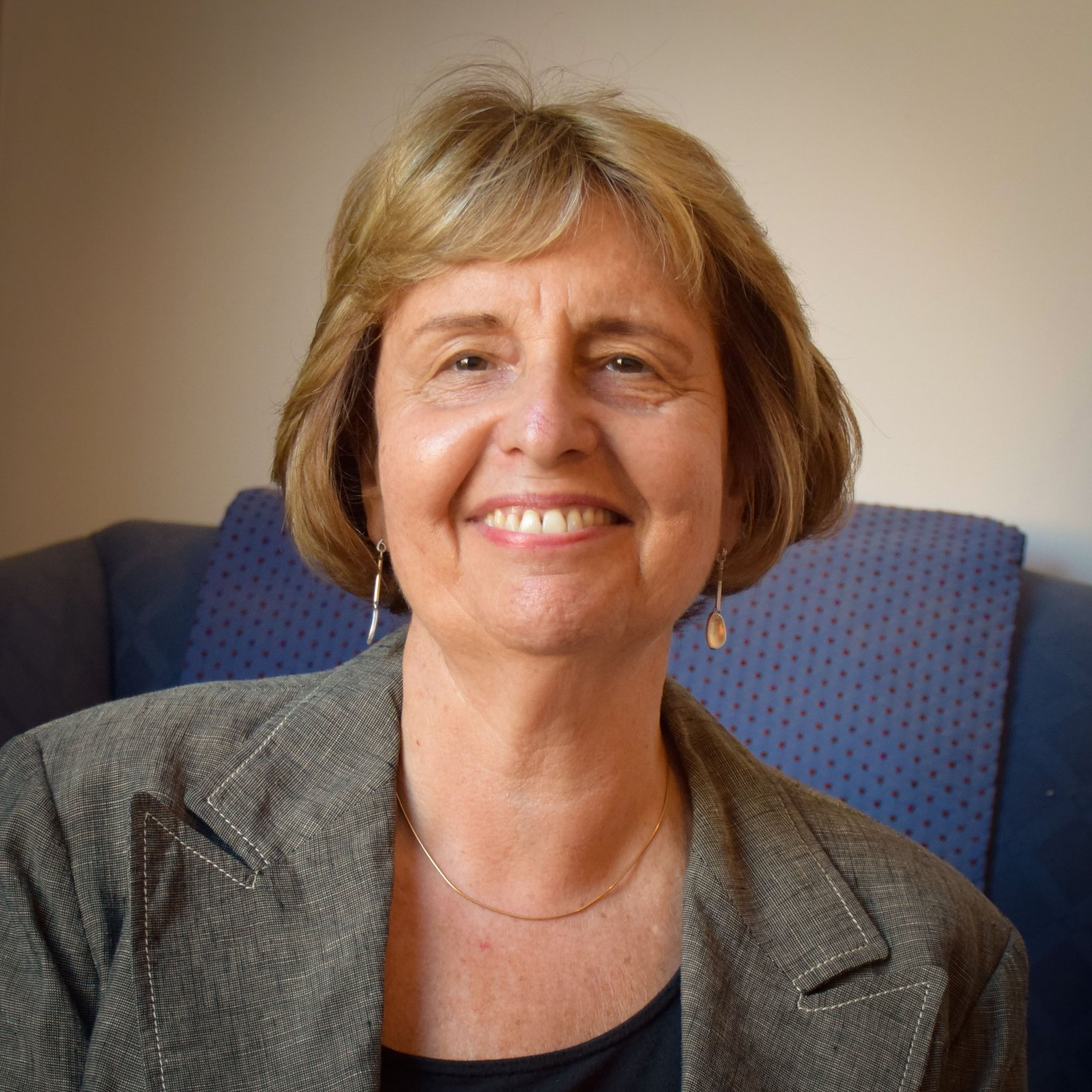 Orly Manor